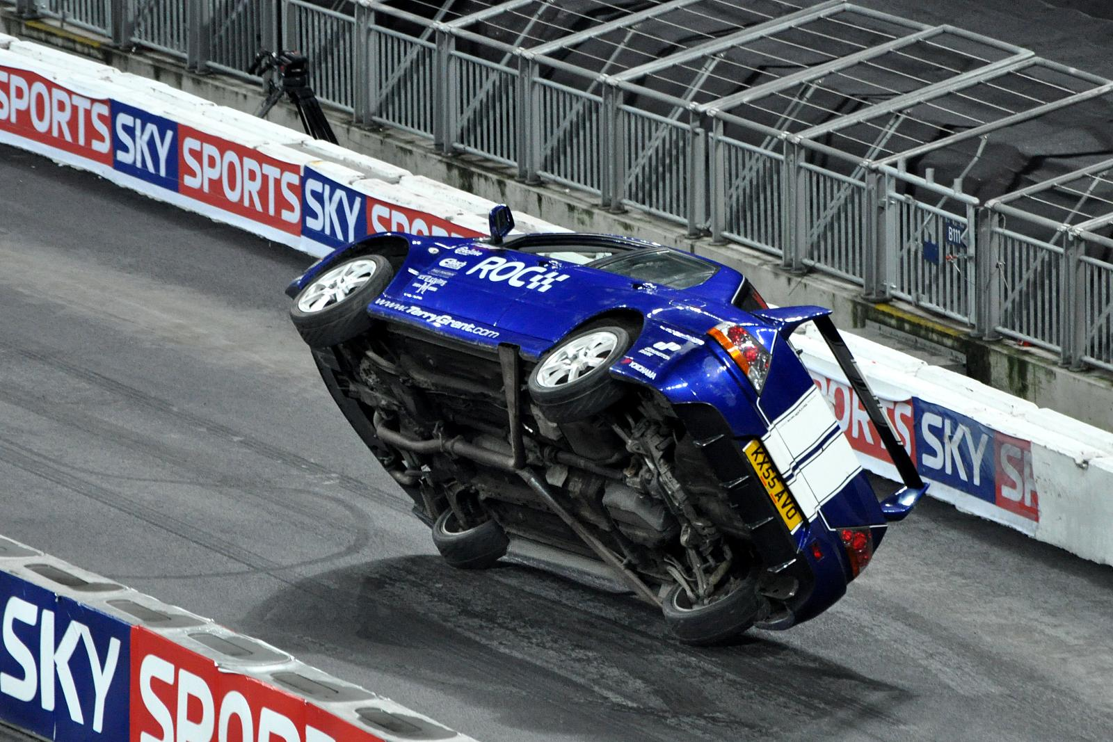 Terry Grant driving on two wheels